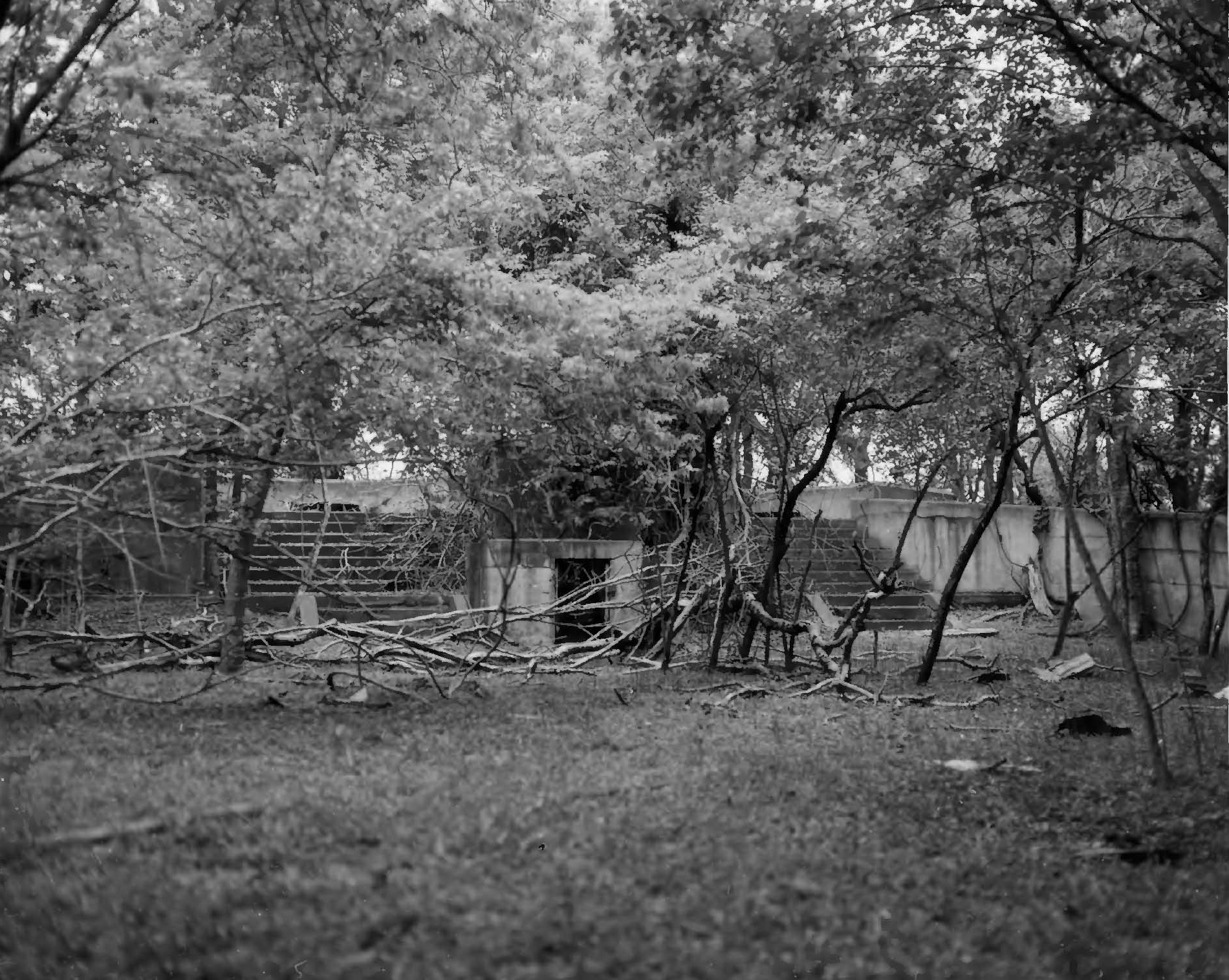 Fort St. Philip, Plaquemines Parish, Louisiana. 1898 addition to the fort, partly overgrown with trees.